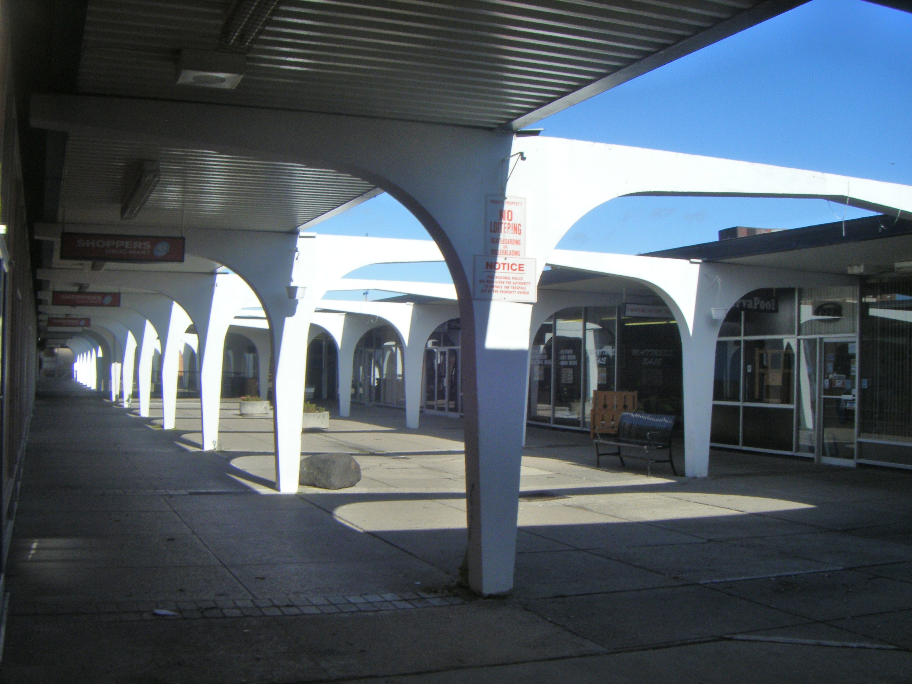 Brampton Mall, 160 Main Street South.